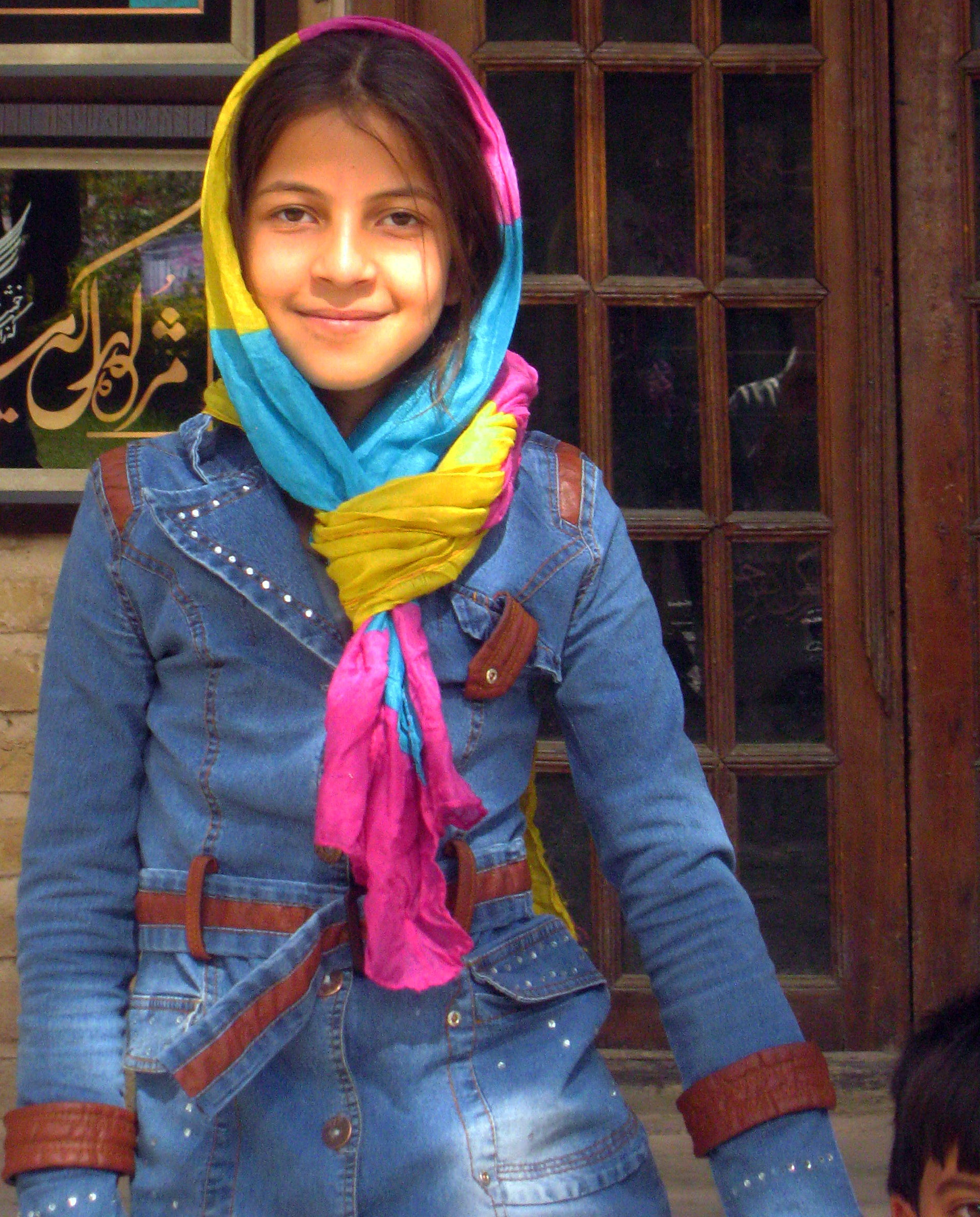 Children in Ribat-i-Abbasi of Nishapur (Hossein - Ali - Fatemeh - Hengameh and another girl - probably Afghani) 12